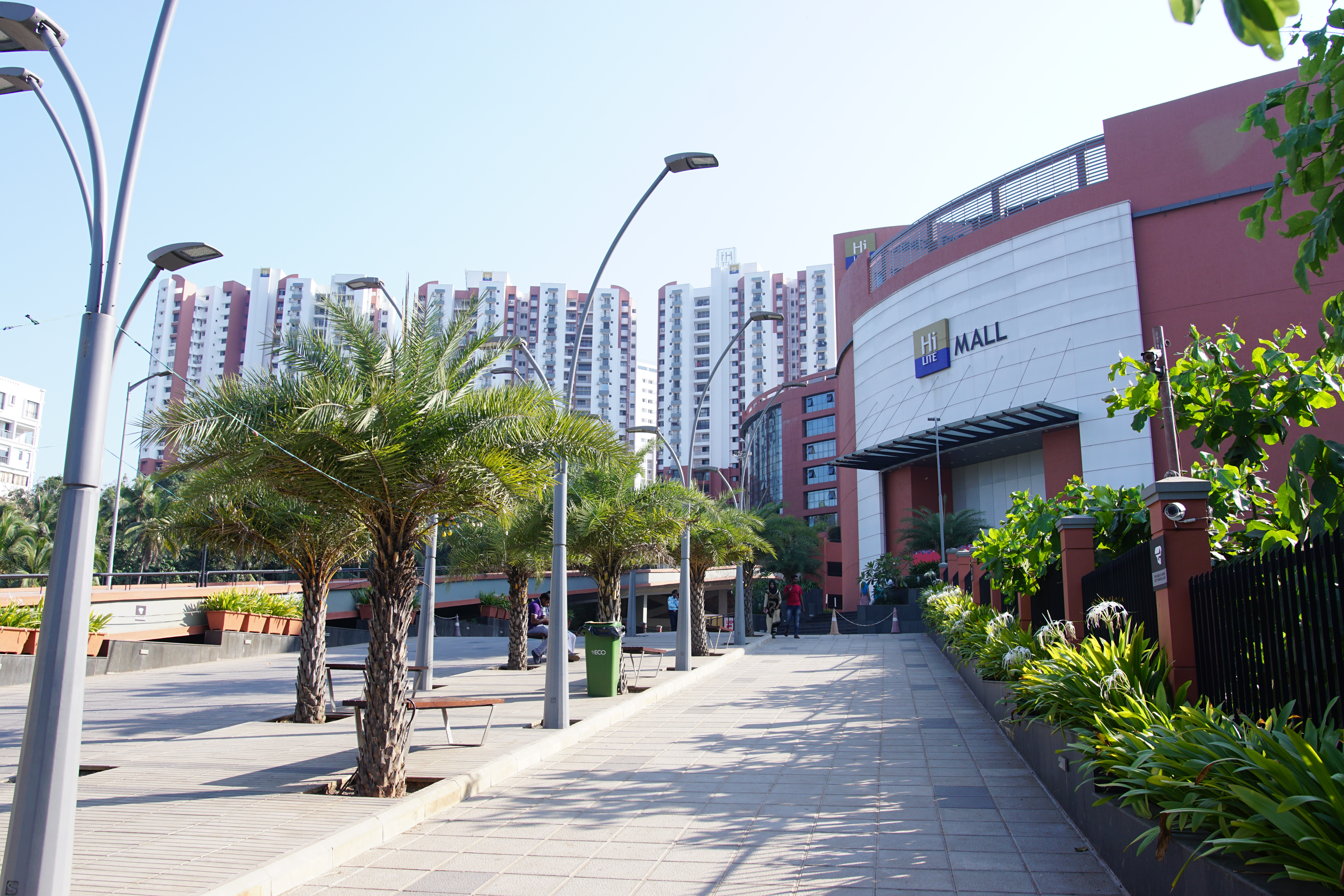 Hilitemall KKD